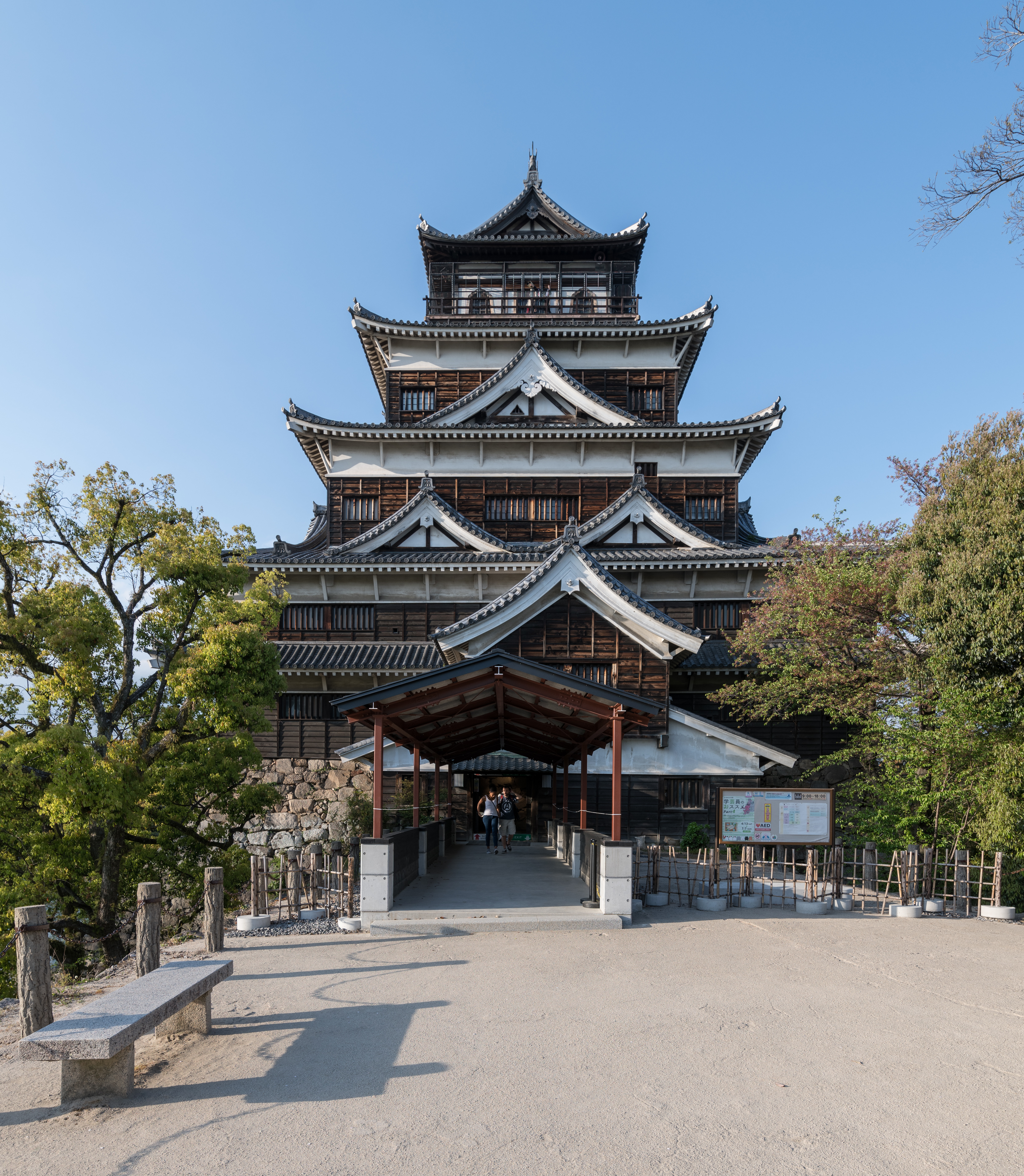 A south view of the keep of Hiroshima Castle